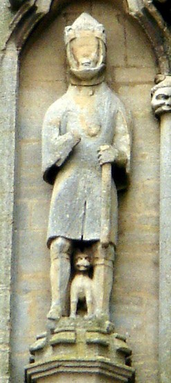 The statue has been conventionally identified as Waltheof, Earl of Northumbria (c.1050–1076); from the fourth tier of the Croyland Abbey's west front of the ruined nave; dates from the XVth century.